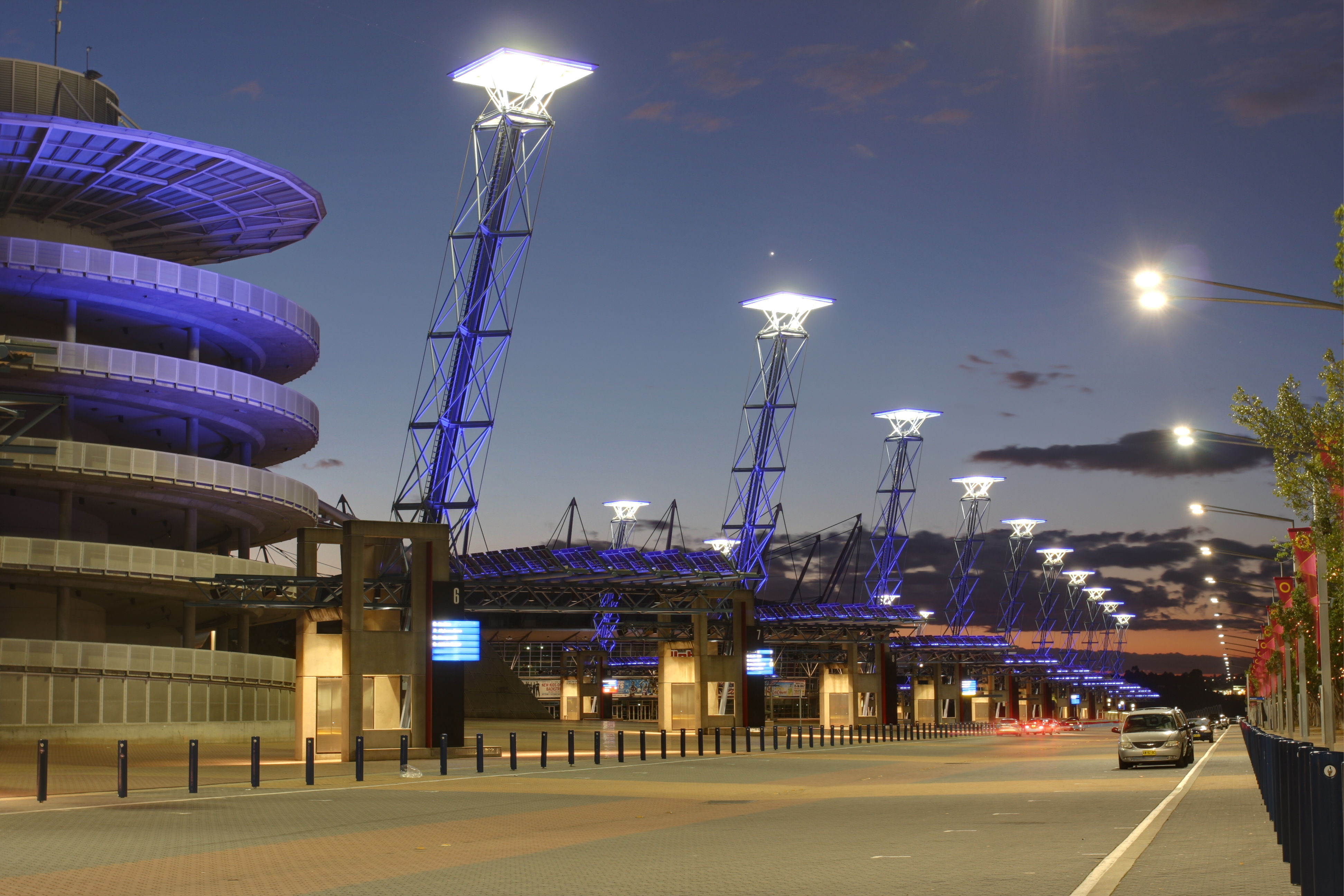 Sydney Olympic Park, New South Wales, Australia